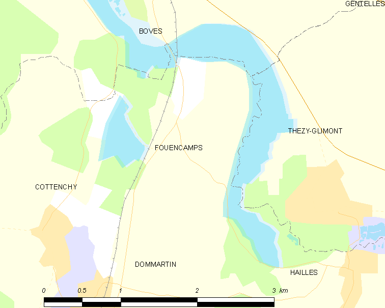 Map of French municipality Fouencamps